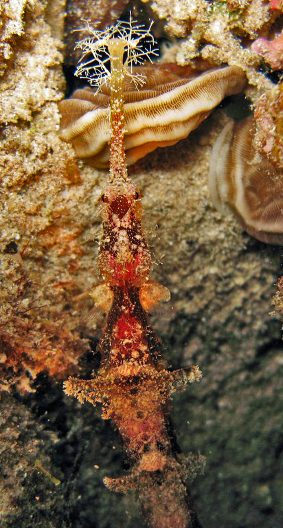 Whiskered Pipefish - Halicampus macrorhynchus; Egypt-Sinai-Dahab